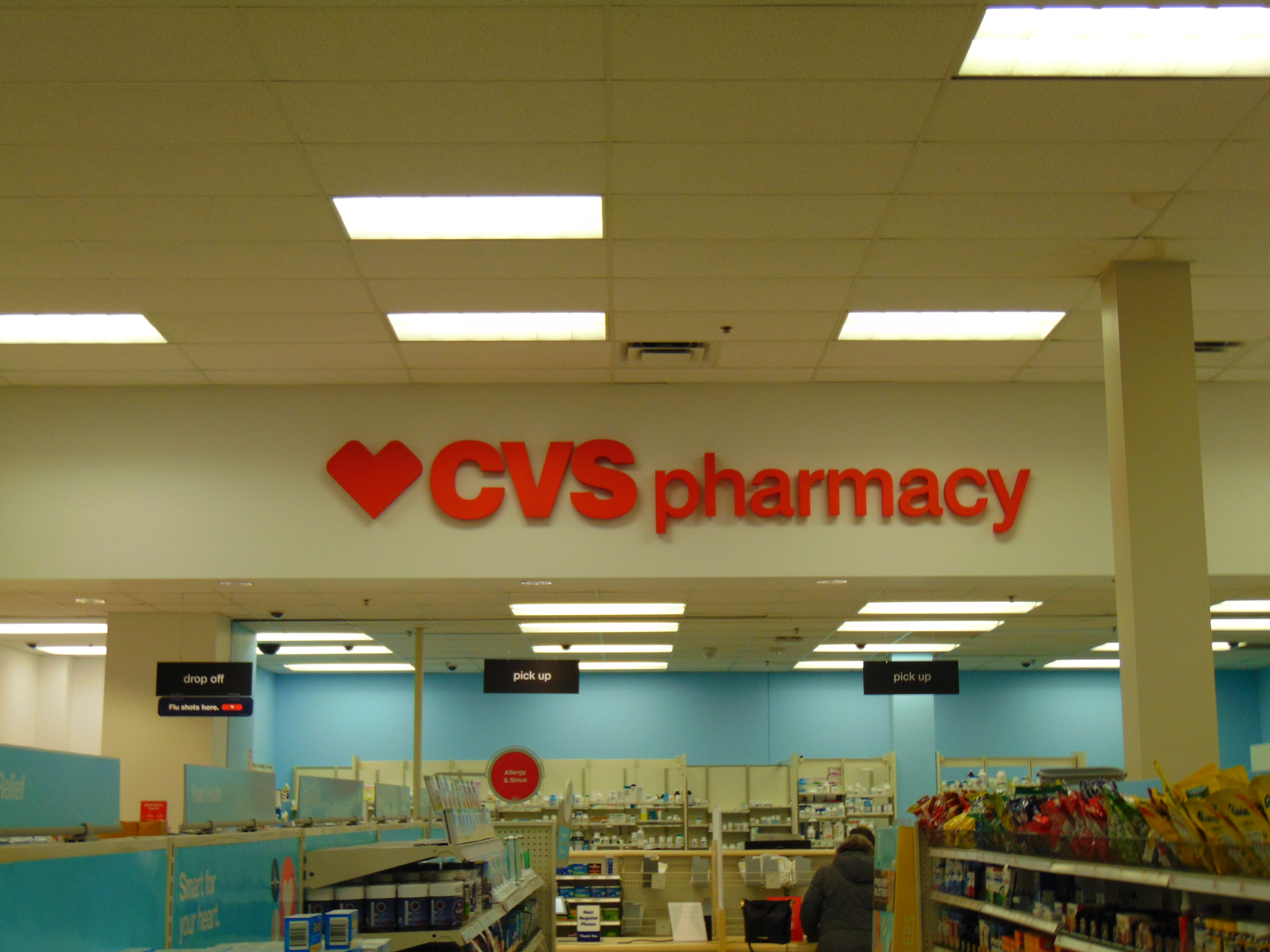 This is a typical Target CVS location. Located inside the Warwick Mall, Warwick, Rhode Island.